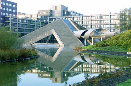 Hardthöhe